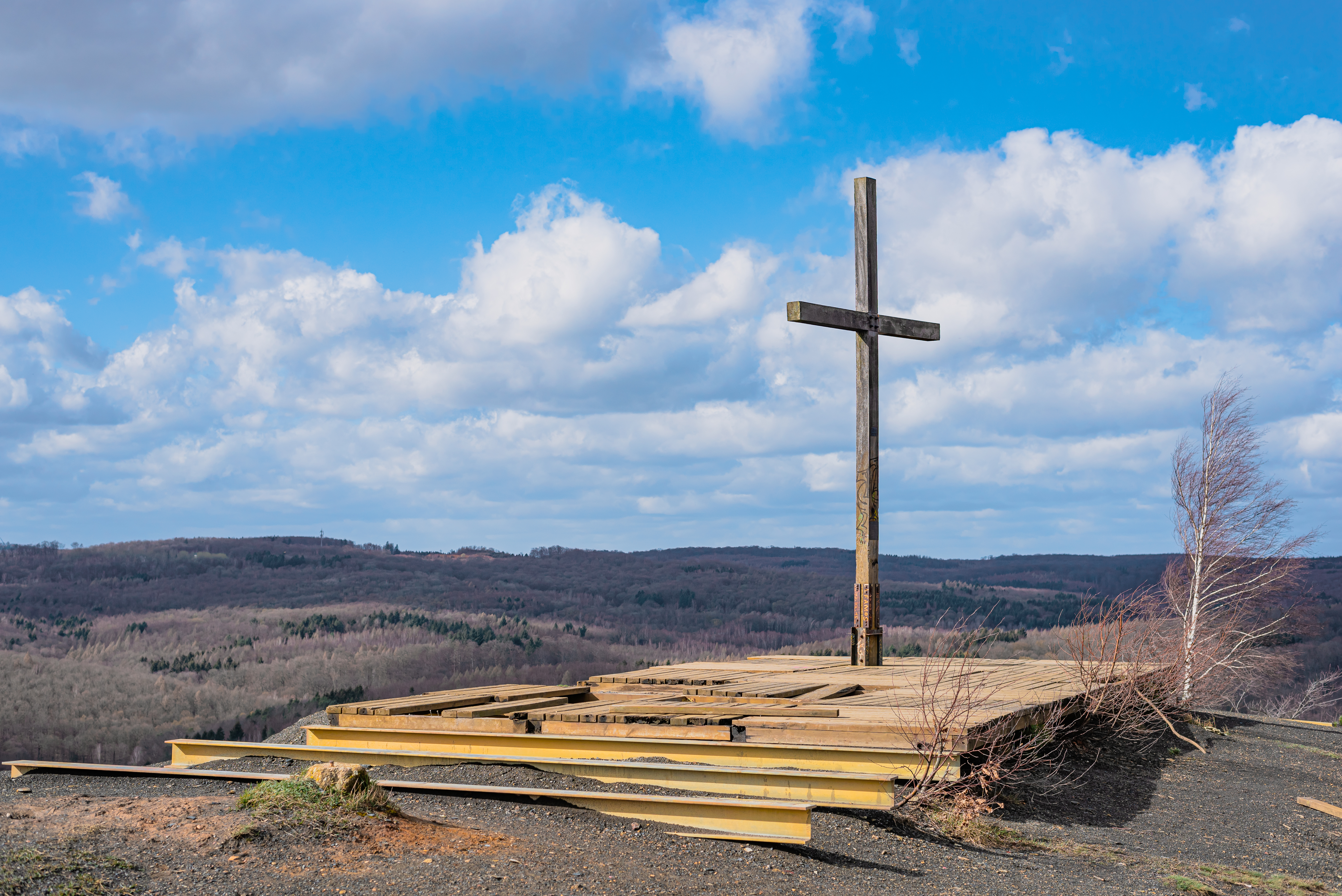 Cross at the peak Bergehalde Grühlingstraße in Saarbrücken